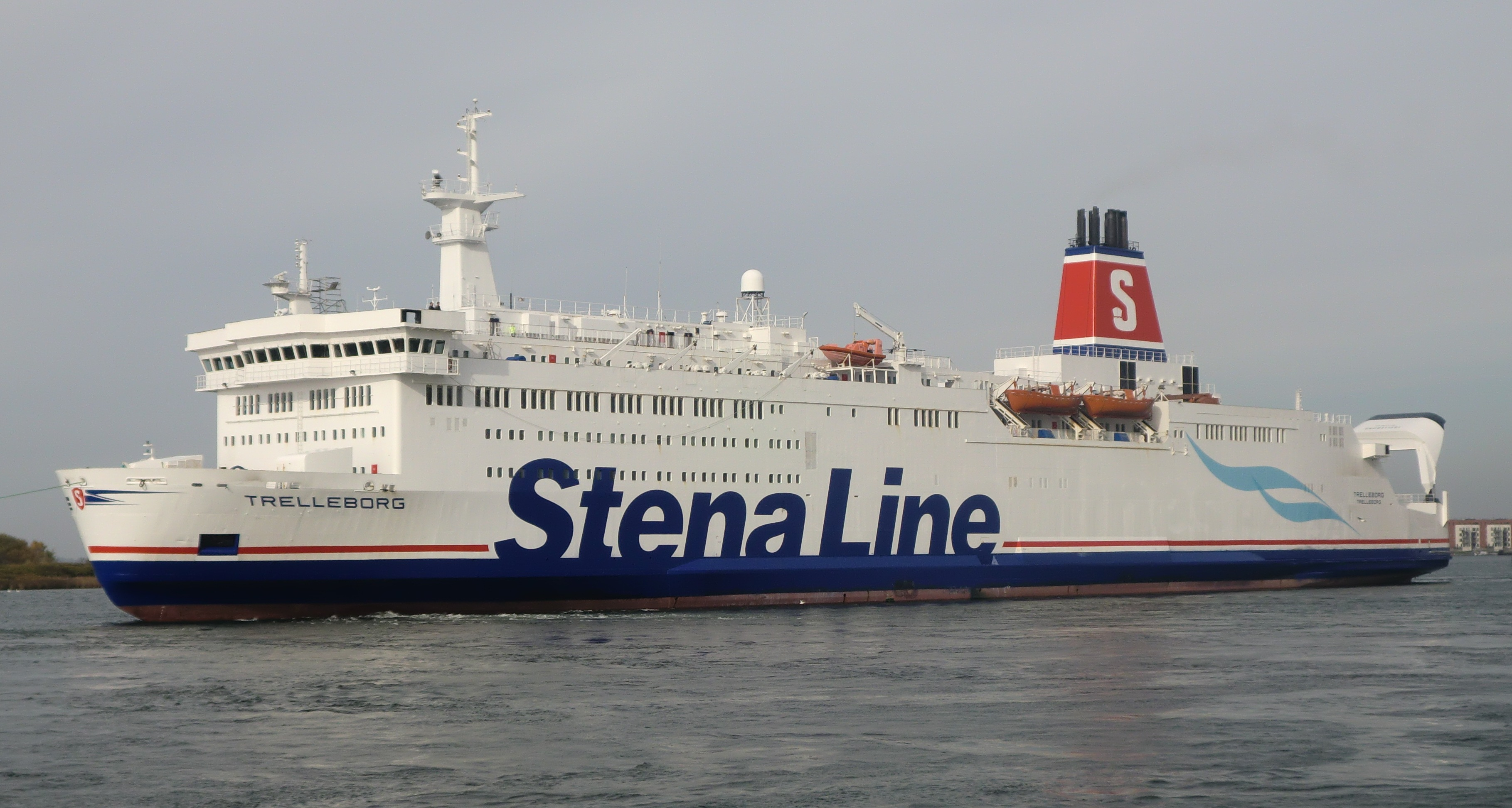 Cruiseferry MS Trelleborg of Stena Line